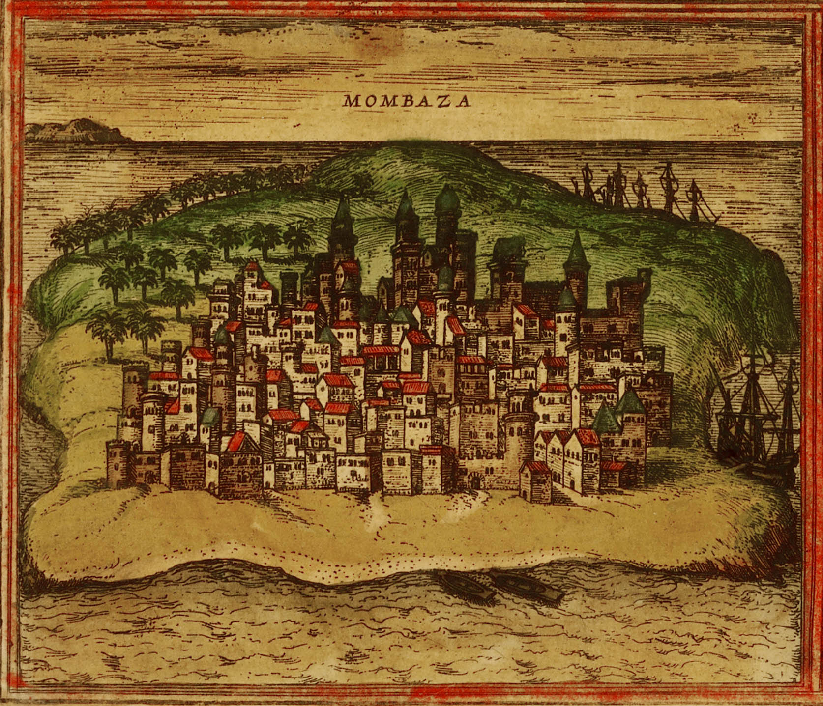 Mombaza - bird's-eye view of the city of Mombasa (Kenya) from Georg Braun and Franz Hogenberg's atlas Civitates orbis terrarum, vol. I, 1572